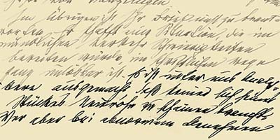 Image 3 of Sigmund Freud Papers: General Correspondence, 1871-1996; Jung, C. G.; From Freud; Originals; 1913.